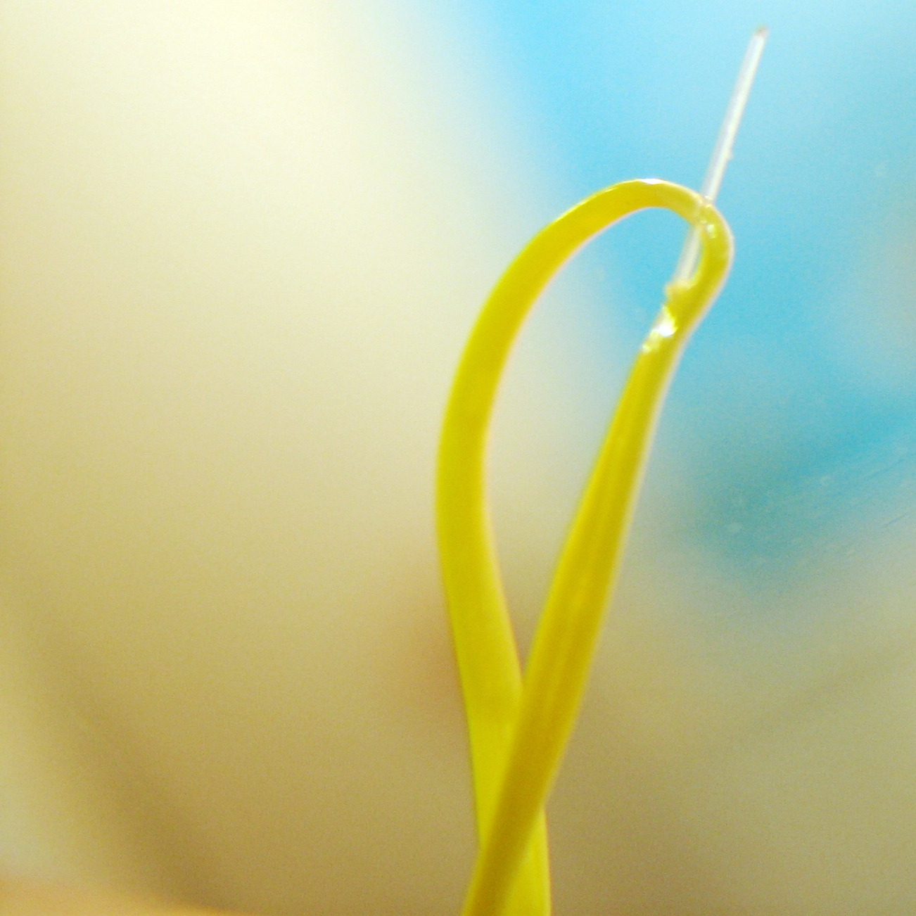 optical fiber